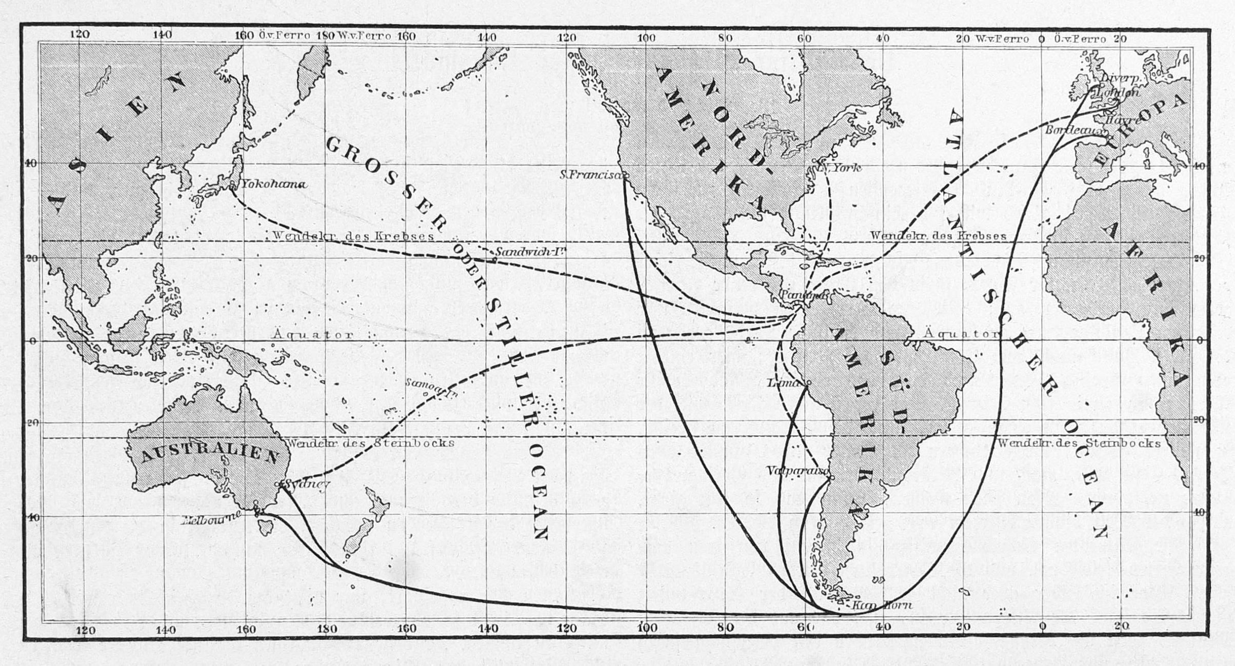 caption: "Die Handelswege und der Panama-Canal."